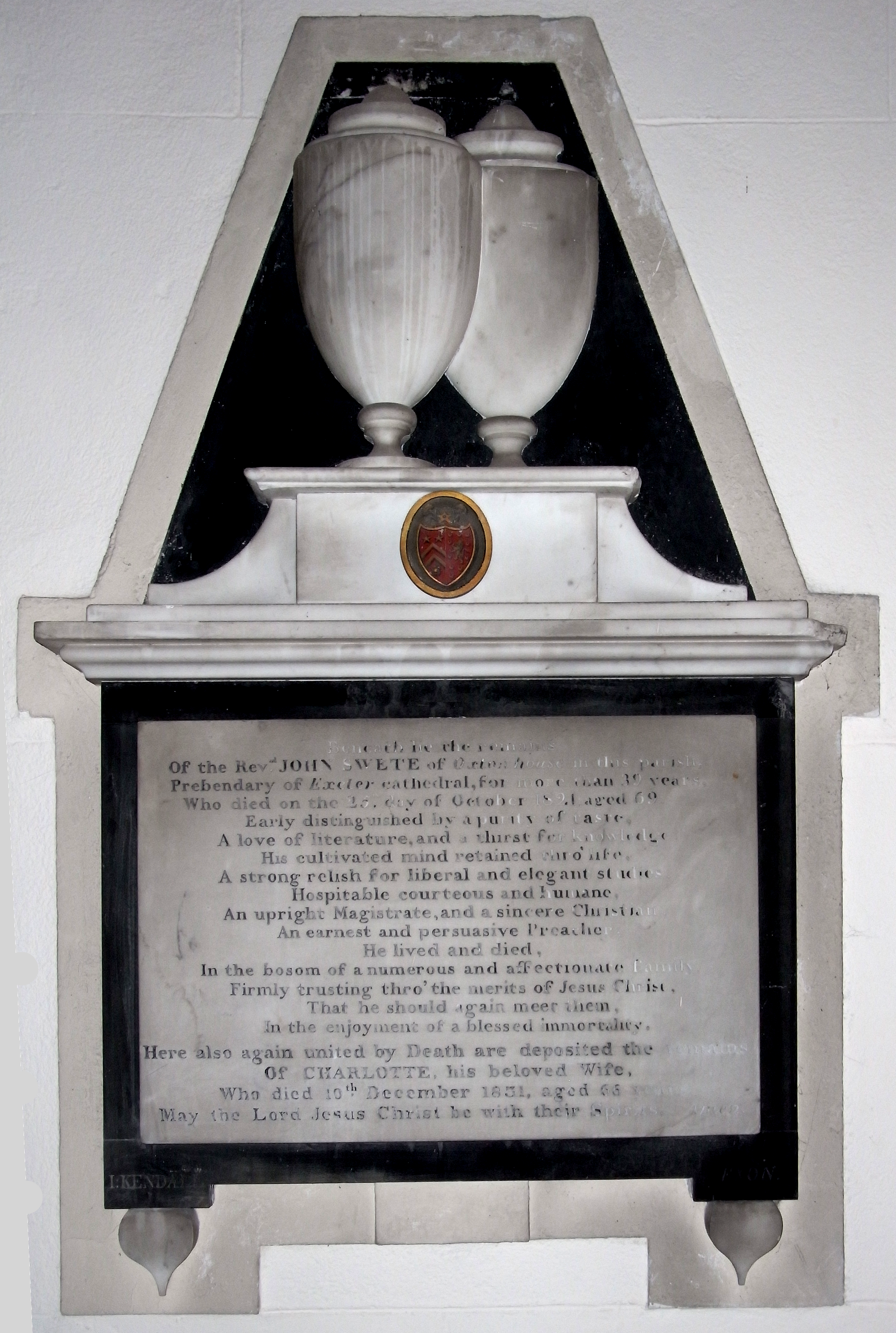 Mural monument in Kento Church, Devon, to Rev. John Swete (d.1821) of Oxton House, Kenton. Inscribed as follows: "Beneath lie the remains of the Rev'nd John Swete of Oxton House in this parish, Prebendary of Exeter Cathedral for more than 39 years, who died on the 25th day of October 1821 aged 69. Early distinguished by a purity of taste, a love of literature, and a thirst for knowledge, his cultivated mind retained thro' life a strong relish for liberal and elegant studies. Hospitable, courteous and humane, an upright magistrate and a sincere Christian, an earnest and persuasive preacher. He lived and died in the bosom of a numerous and affectionate family, firmly trusting thro' the merits of Jesus Christ that he should again meet them in the enjoyment of a blessed immortality. Here also again united by Death are deposited the remains of Charlotte his beloved wife who died 10th December 1831 aged 66 years. May the Lord Jesus Christ be with their Spirits. Amen". Above are the arms of of Swete (Gules, two chevronels between in chief as many mullets or and in base a rose argent seeded of the second)[1] impaling Beaumont of Darton, Yorkshire (Gules, a lion rampant or armed and langued azure an orle of crescents of the second);[2]